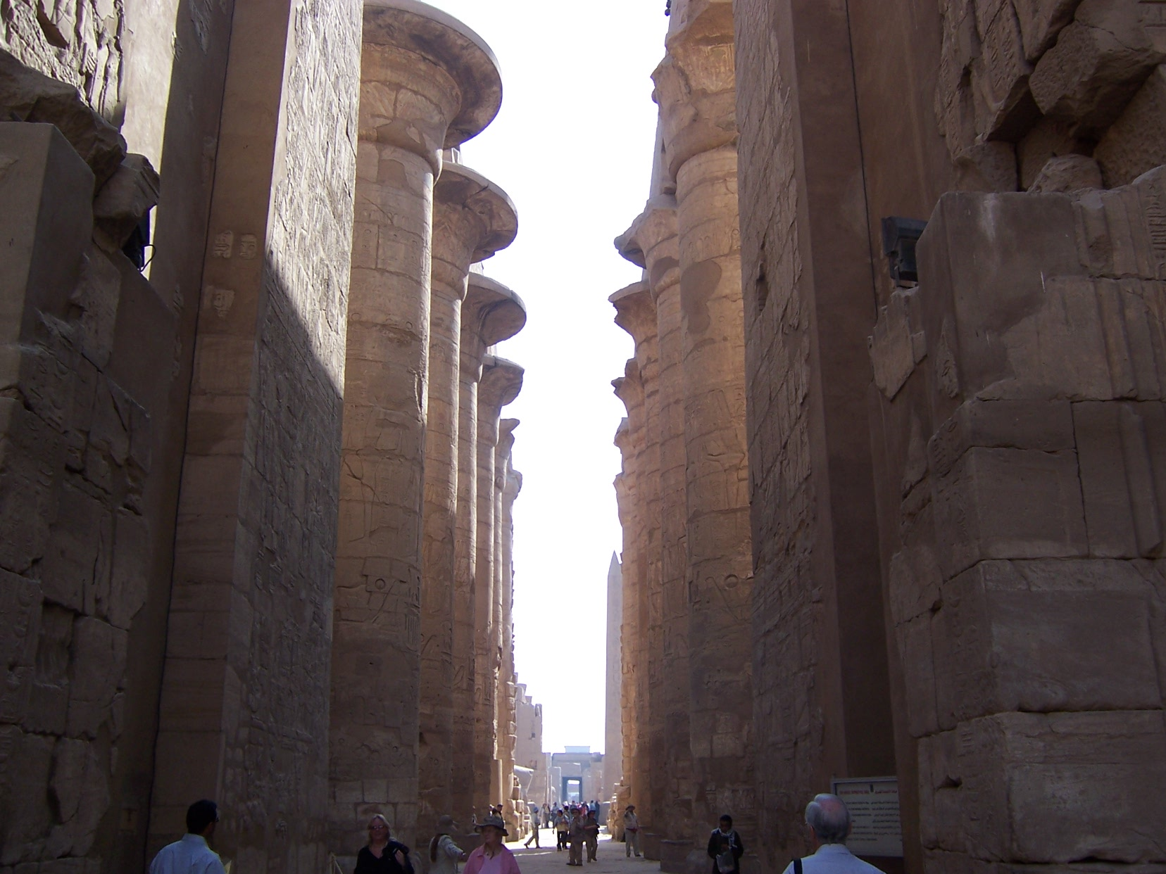 Karnak Temple Complex at Luxor, Egypt